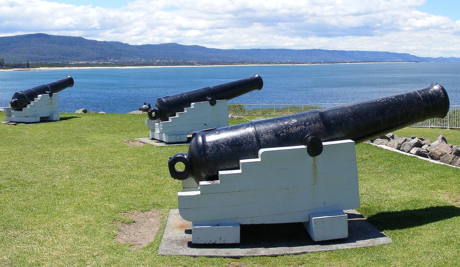 3 SBML 68 pounder 95 cwt guns at Flagstaff Hill Fort, Wollongong, NSW, Australia.